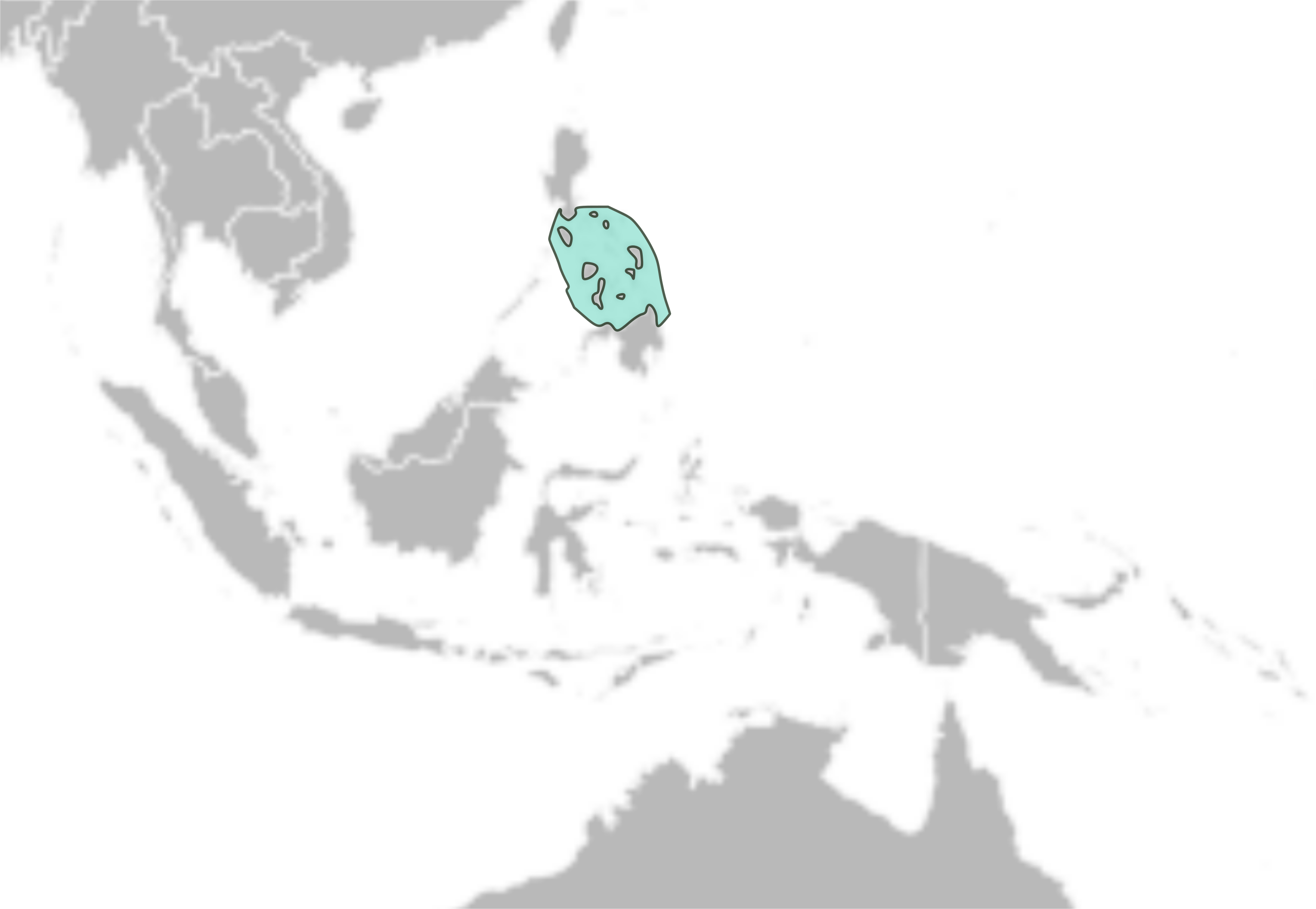 A distribution map for the seaslug species Nembrotha mullineri, known only from the Philipines. Author original blank SVG map: Frank Bennett Made with Inkscape